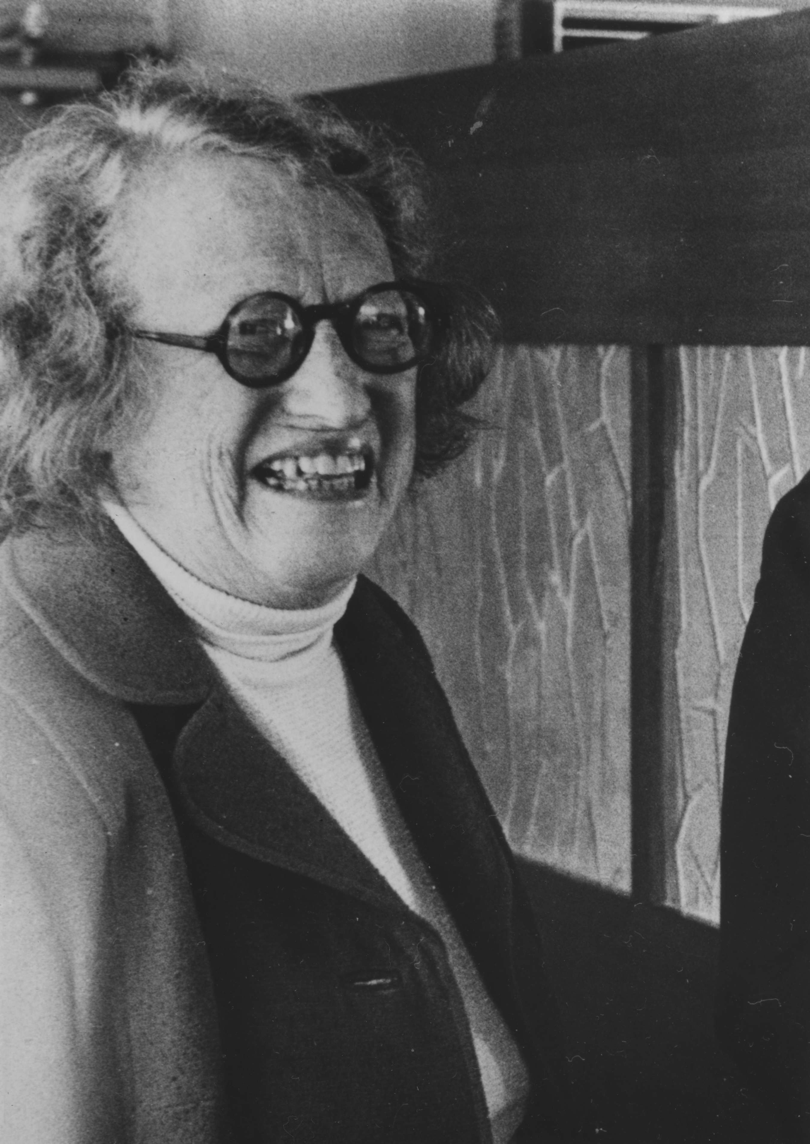 Information from LSE Magazine November 1985 No 70, p.11, Obituary Lady Hicks, who died on Blockley Gloucestershire on 16 July, aged 89, was an economist of world-wide distinction. Ursula Kathleen Webb, who was born in Dublin on 17 September 1896 went from Roedean to Somerville College, Oxford in 1915 where she read history. After graduating she worked for a time in the Agricultural Wages Board but her career was then interrupted for family reasons. In 1929 she registered for the B.Sc Econ. At LSE in which she gained first class honours in 1932 continuing as a research student until her Ph.D was awarded in 1935. She was then appointed Assistant Lecturer at LSE but on her marriage to (Sir) John Hicks who had been elected to a Cambridge Fellowship she resigned with him. Lady Hicks, however, maintained a close association with the School informally particularly as an external examiner. She was elected an Honorary Fellow in 1980. Professor George Shackle writes ‘Lady Hick’s fame in her own right was, of course, world wide. In every institution and milieu she was a powerful and glowing source of inspiration: zestful, decisive, kindly, a born leader. Countless people in all the places where she lived or worked must owe her a deep debt of gratitude for far-sighted encouragement and friendship. Her great memorial, amongst tangible things, will no doubt be The Review of Economic Studies which her vision, driving force and administrative grasp were instrumental in founding in company with two other graduate students at LSE…The declared purpose of RES was to publish the promising work of young economists, from research students up to lecturers. It would not, at first, accept articles from Readers of Professors. Notoriously it became one of the most high powered and prestigious journals in the whole range of the profession. IMAGELIBRARY/1124 Persistent URL